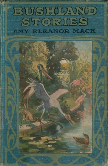 Cover of a book "Bushland Stories" by Amy Eleanor Mack, 1914